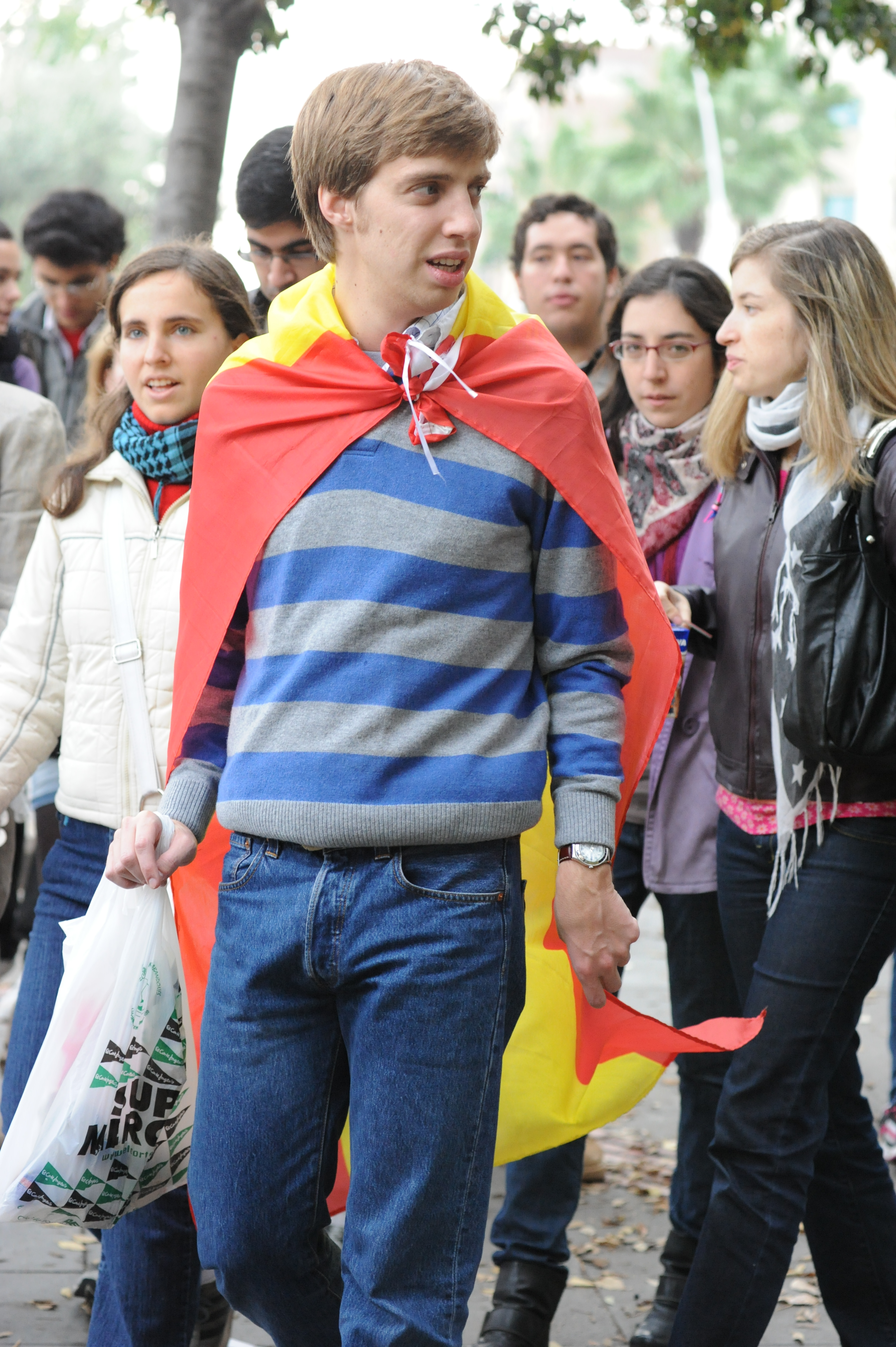 Young man in Wold Youth day 2011 preparation with Spain flag.